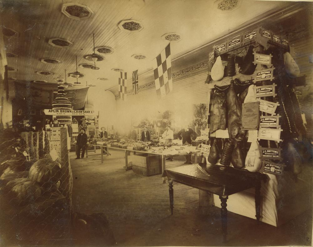 View of one of the exhibits at the Townsville Show, ca.1896. Horticultural exhibit, Townsville Show. The exhibits include smoked hams, [pumpkins, plants in pots other produce.